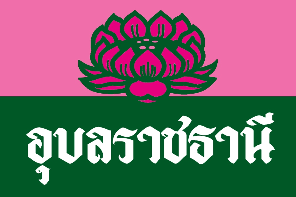 Flag of Ubon Ratchathani Province